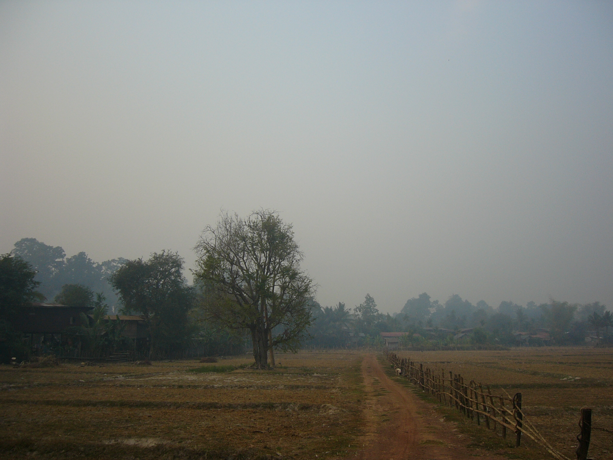 Nakhoon Yai, Thailand — southern part in the morning mist.